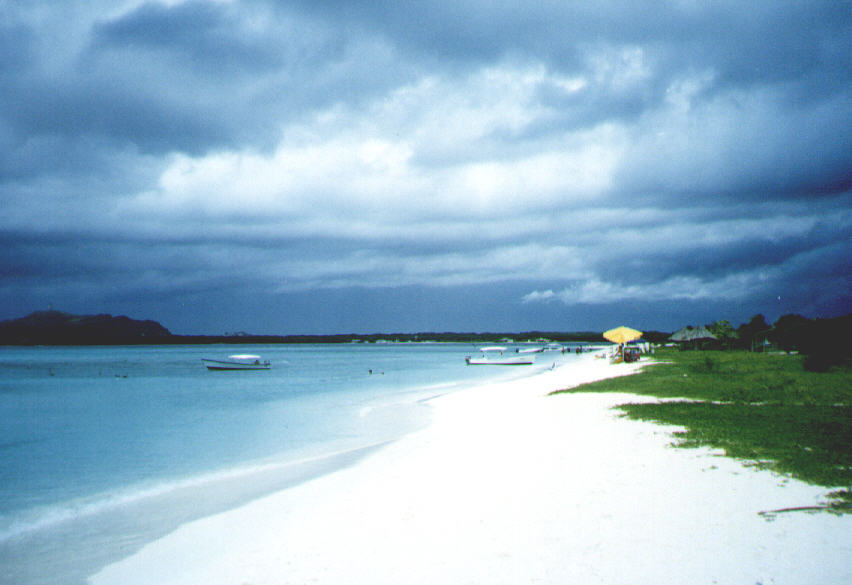 'n Beach at Los Roques, Venezuela.